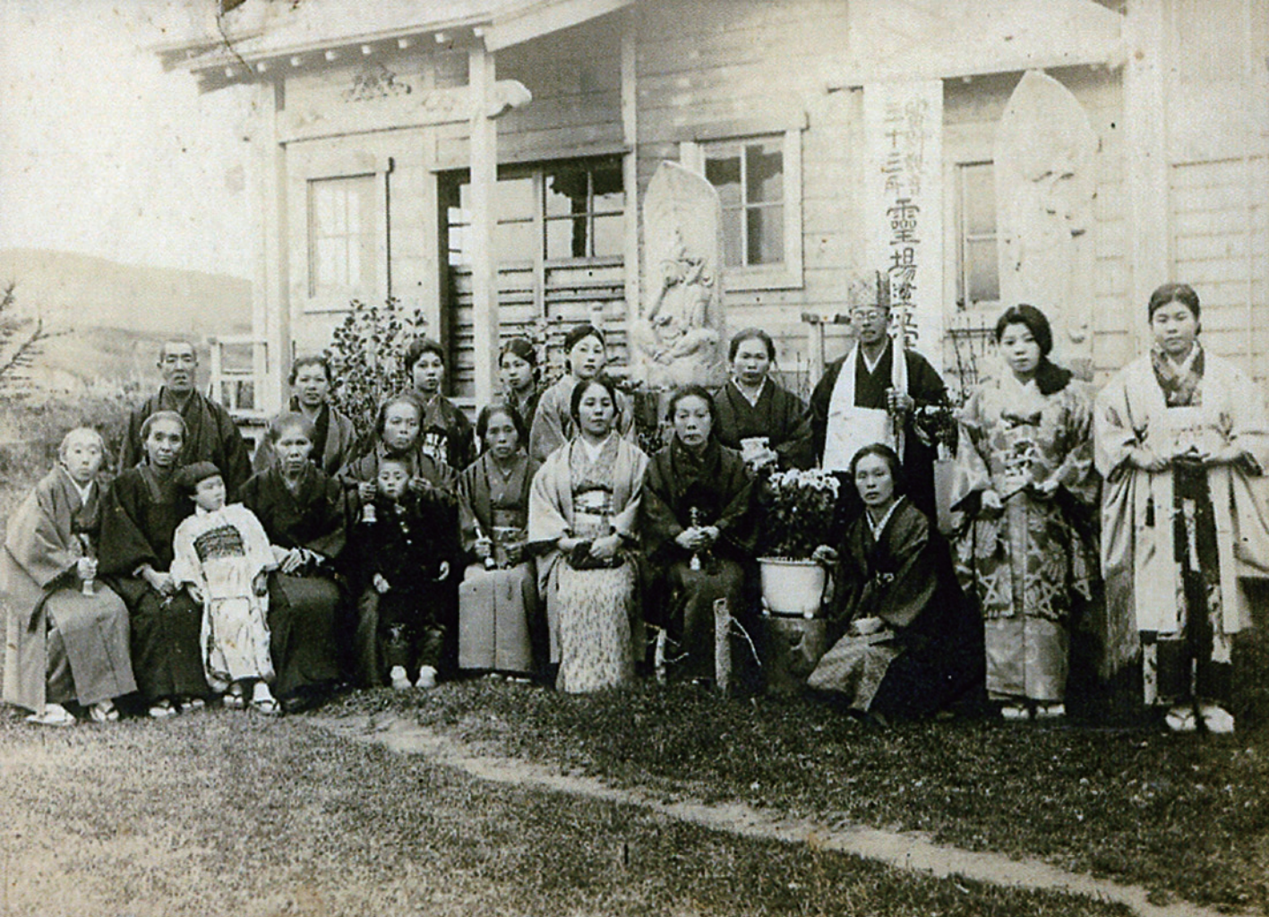 Photo of a Japanese Buddhist Temple with people on Iturup island (Etorofu).